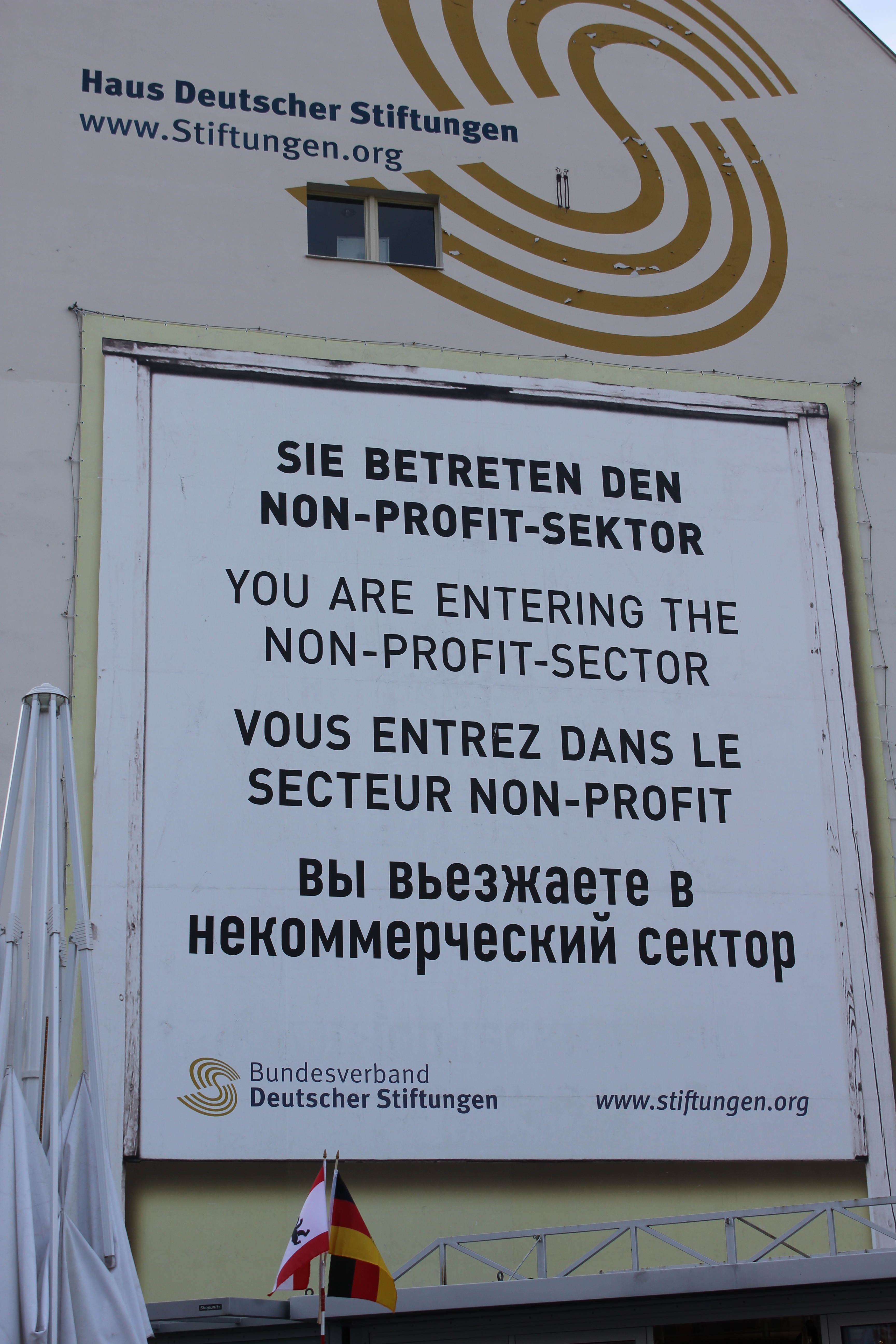 Mockup of the famous sign "You are entering the American Sector" at the center for German foundations close to the former Checkpoint Charlie in Berlin.